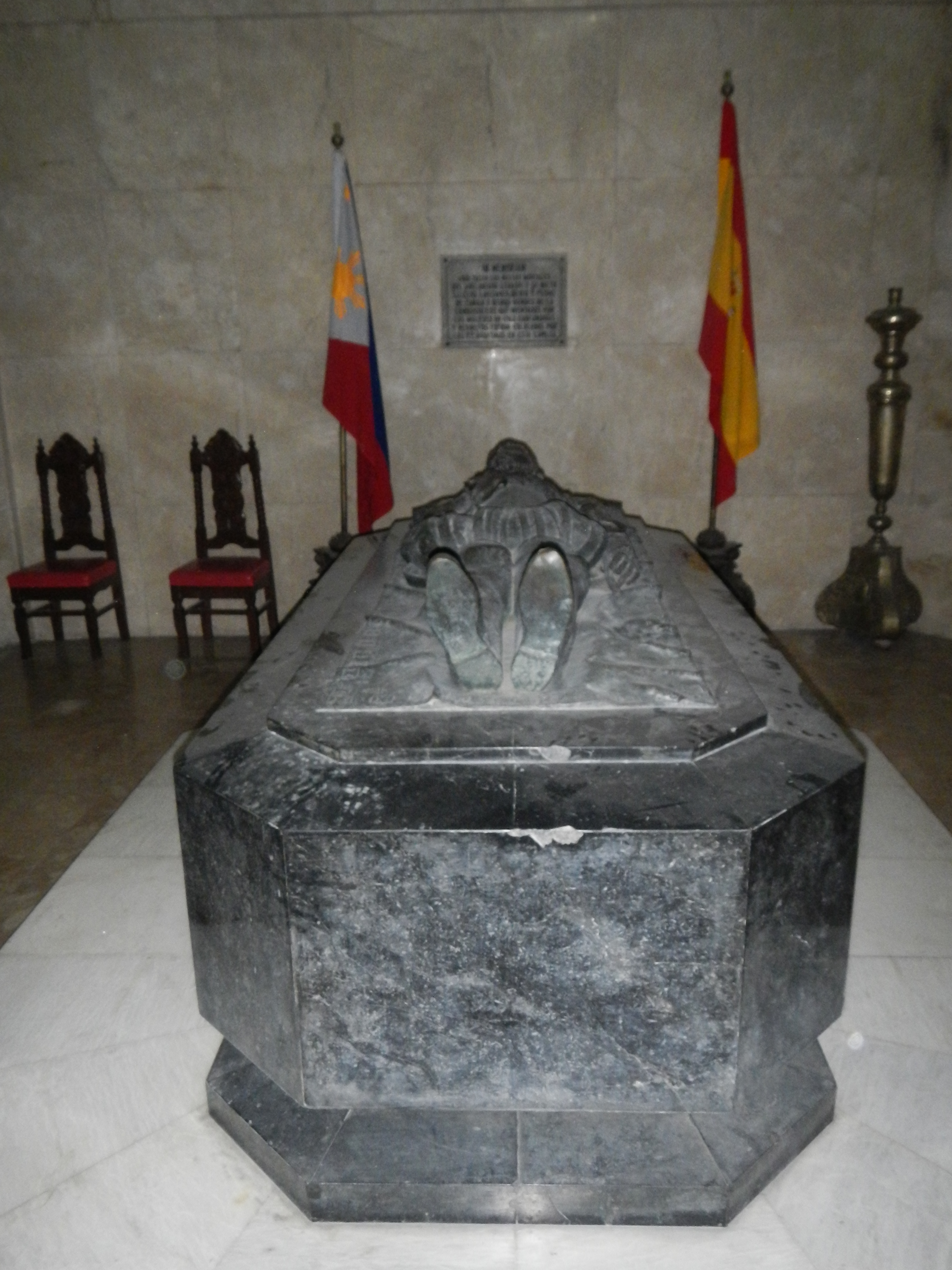 Tombs of: Miguel López de Legazpi[1] also known as El Adelantado and El Viejo (The Elder), was a Spanish conquistador who established one of the first Spanish settlements in the East Indies and the Pacific Islands in 1565. He was the first Governor-General of Spanish East Indies (present day as Philippines). After obtaining peace with various indigenous tribes, Miguel López de Legazpi made the Philippines the capital of the Spanish East Indies in 1571 Juan de Salcedo[2] (1549 – March 11, 1576) was a Spanish conquistador. He was born in Mexico in 1549 and he was the grandson of Miguel López de Legazpi and brother of Felipe de Salcedo. Salcedo was one of the soldiers who accompanied the Spanish colonization of the Philippines in 1565. He joined the Spanish military in 1564 for their exploration of the East Indies and the Pacific, at the age of 15. In 1569, Salcedo led an army of about 300 soldiers along with Martín de Goiti for their conquest of Manila. There they fought a number of battles against the Muslim chieftains in 1570 and 1571, for control of lands and settlements. San Agustin Church, Manila[3]